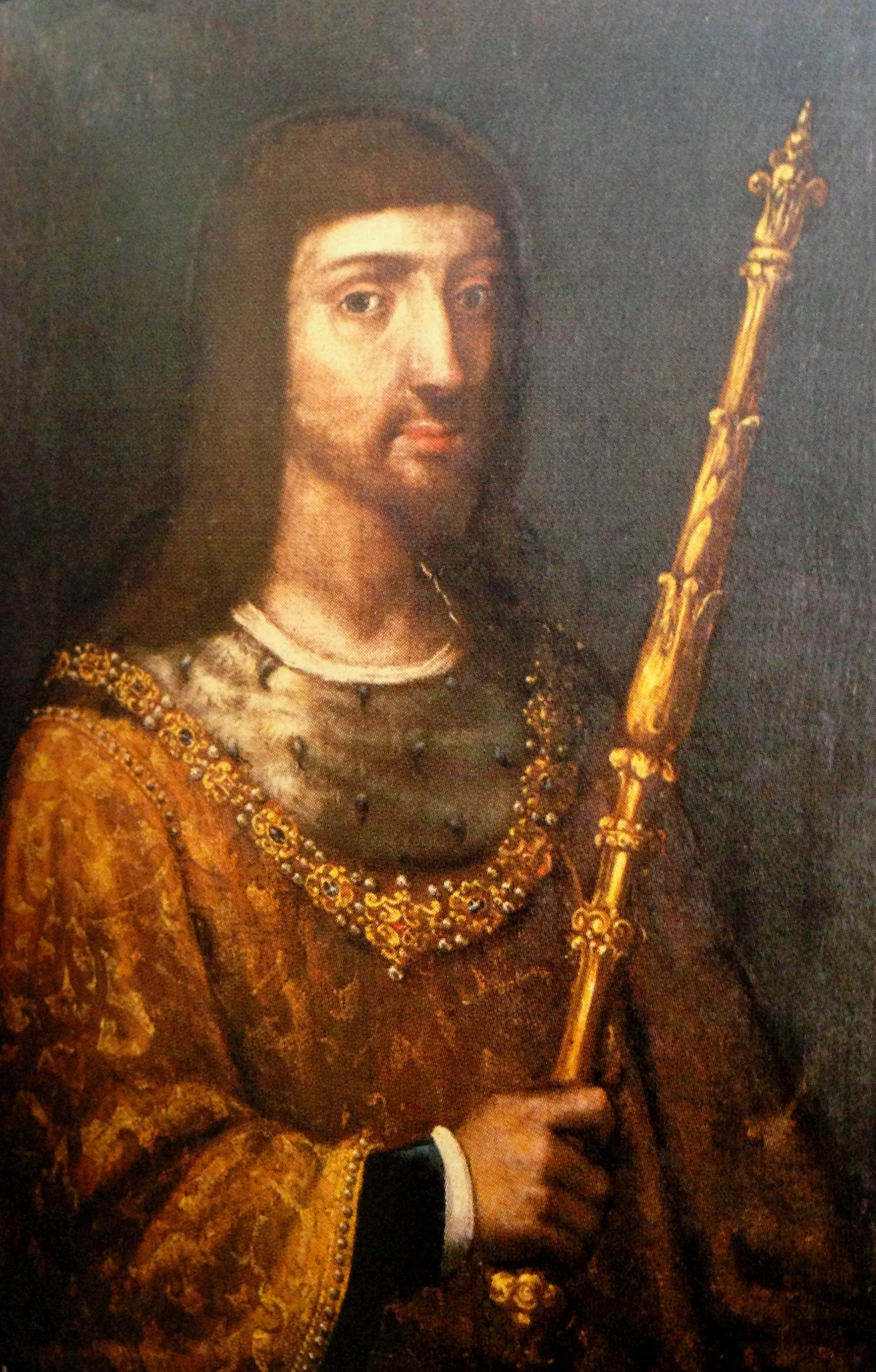 Portrait of King Manuel I by Henrique Ferreira (1720). Located at the Casa Pia Biblioteca Pina Manique, originally part of the Monastery of Belem royal portraits collection.